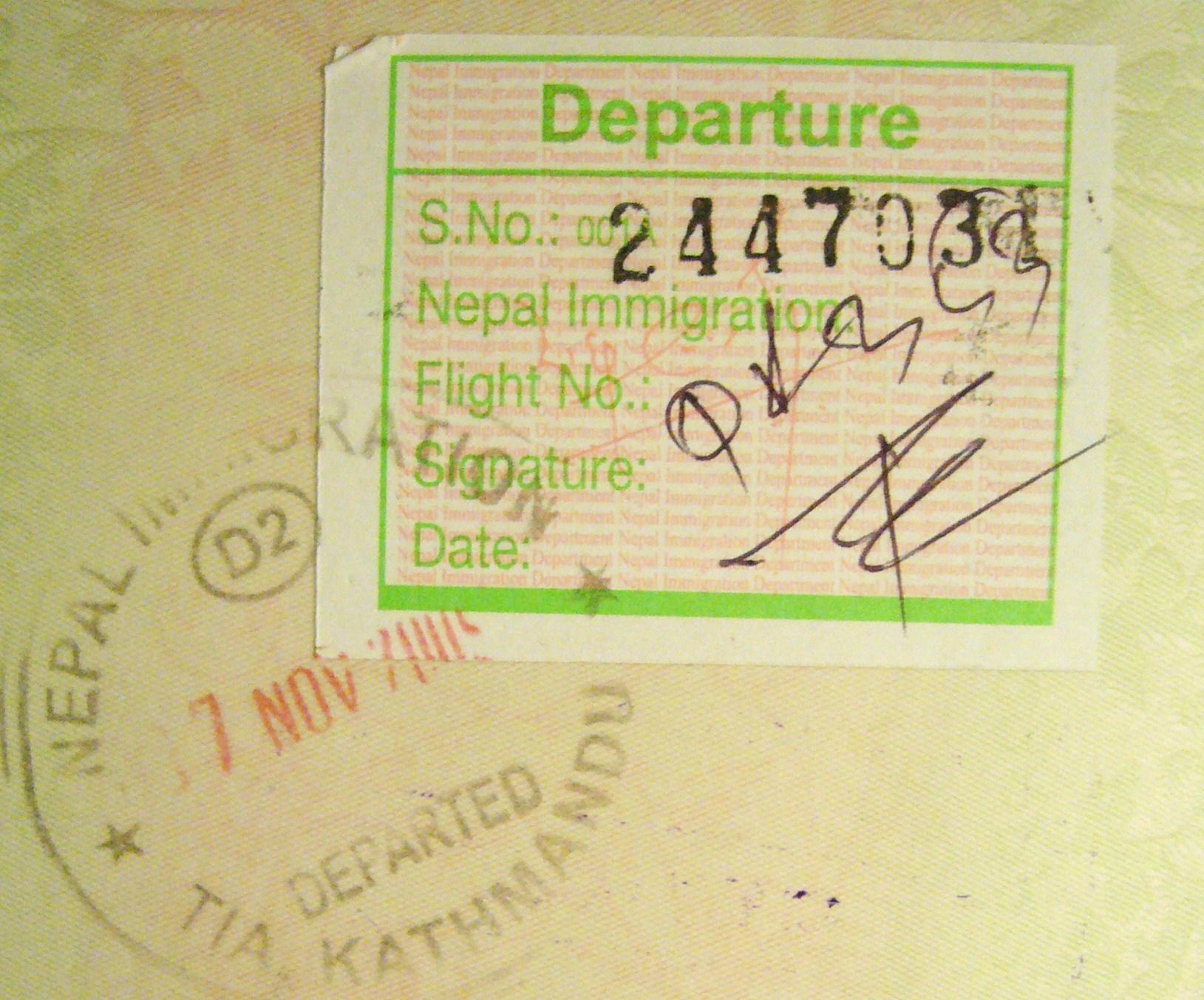 departure sticker stamp in kathmandu airport